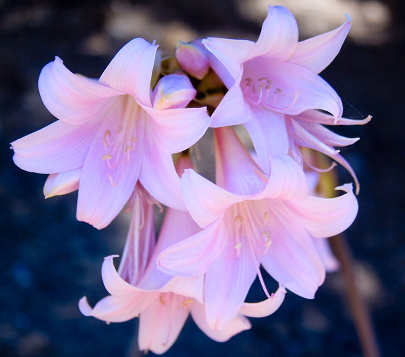 Amaryllis